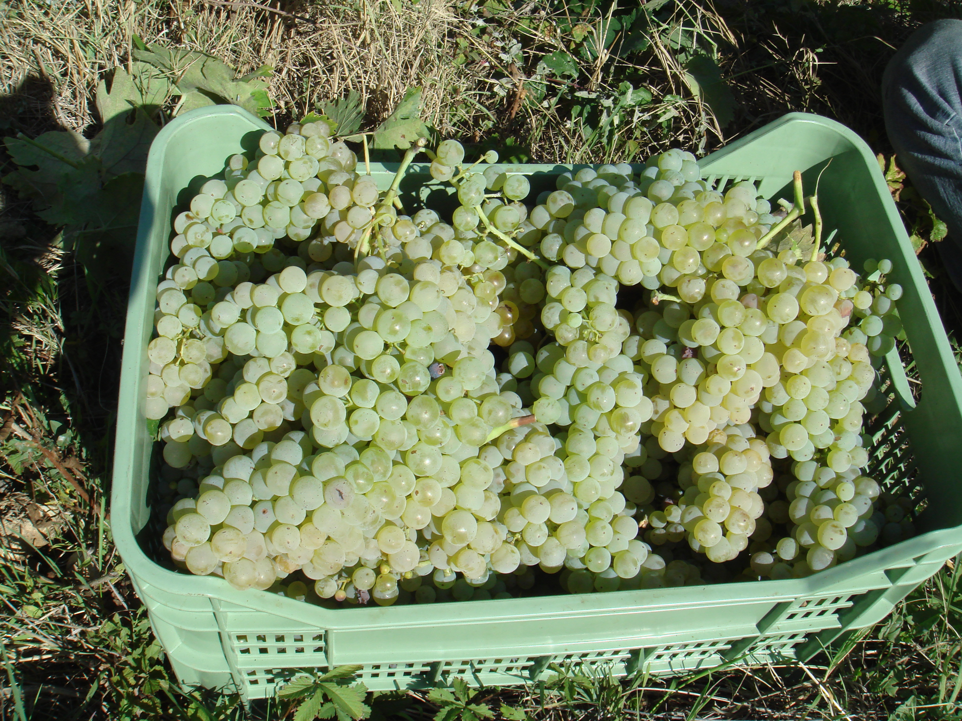 From author "Harvest grapes end of September and awaiting 2 or 3 month before to press the grapes."